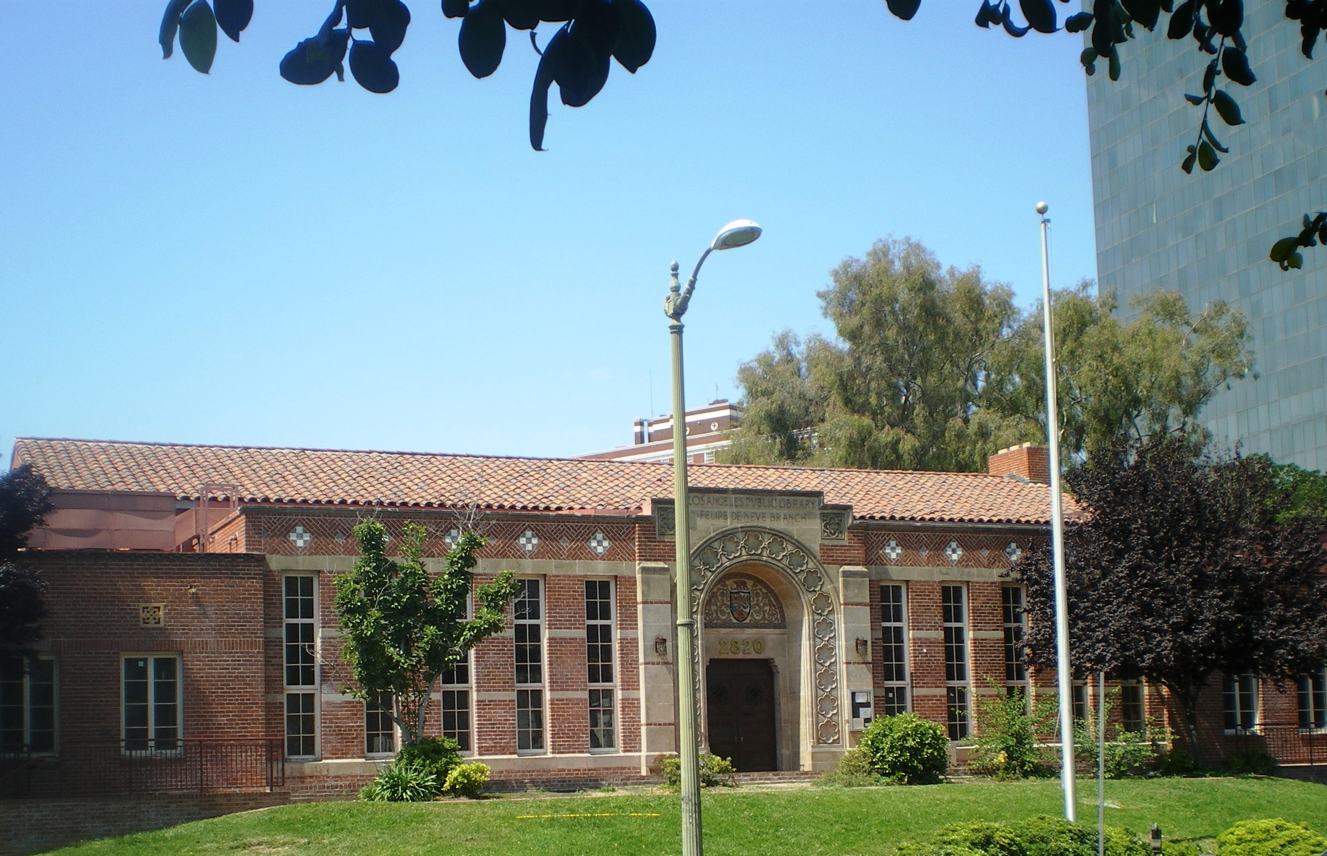 Felipe de Neve Branch — Los Angeles Public Library. At 2820 West Sixth Street, adjacent to Lafayette Park in the Westlake neighborhood of west-central Los Angeles, California. The 1929 Renaissance Revival style brick building is a Los Angeles Historic-Cultural Monument, and on the National Register of Historic Places in Los Angeles.